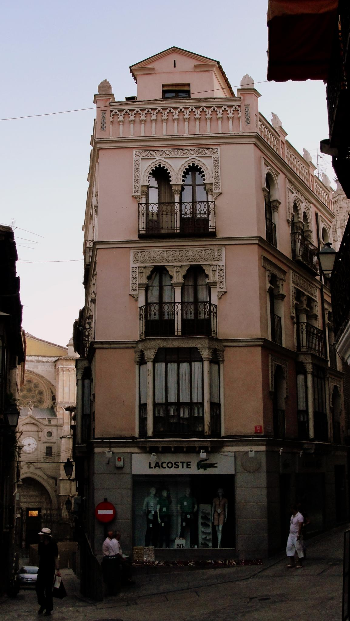 Neomudéjar building in Plaza de las Cuatro Calles, Toledo, Spain